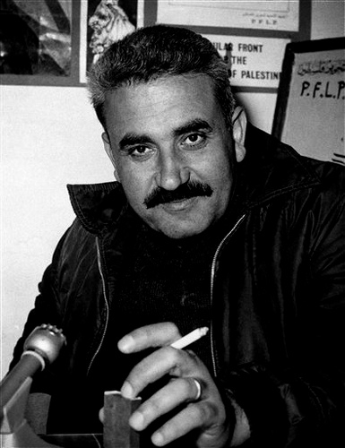 George Habash, Chairman of the PFLP - "Popular Front for the Libaration of Palestine"